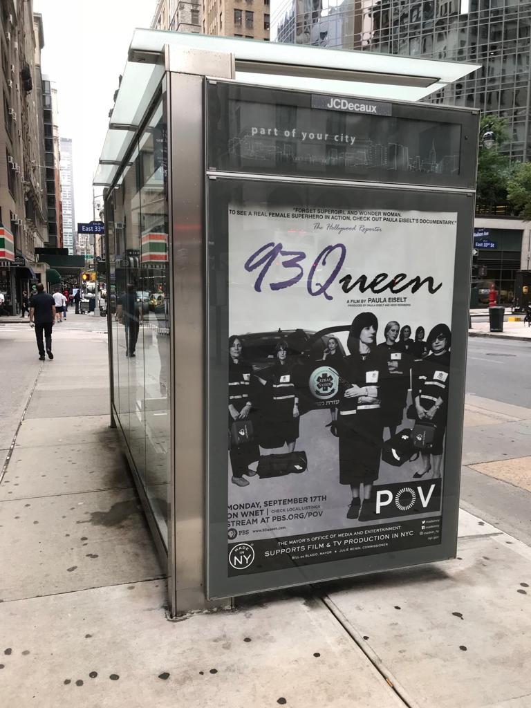 Judge Rachel Freier appeared in Ads for “93QUEEN” all over NYC Bus Stops.